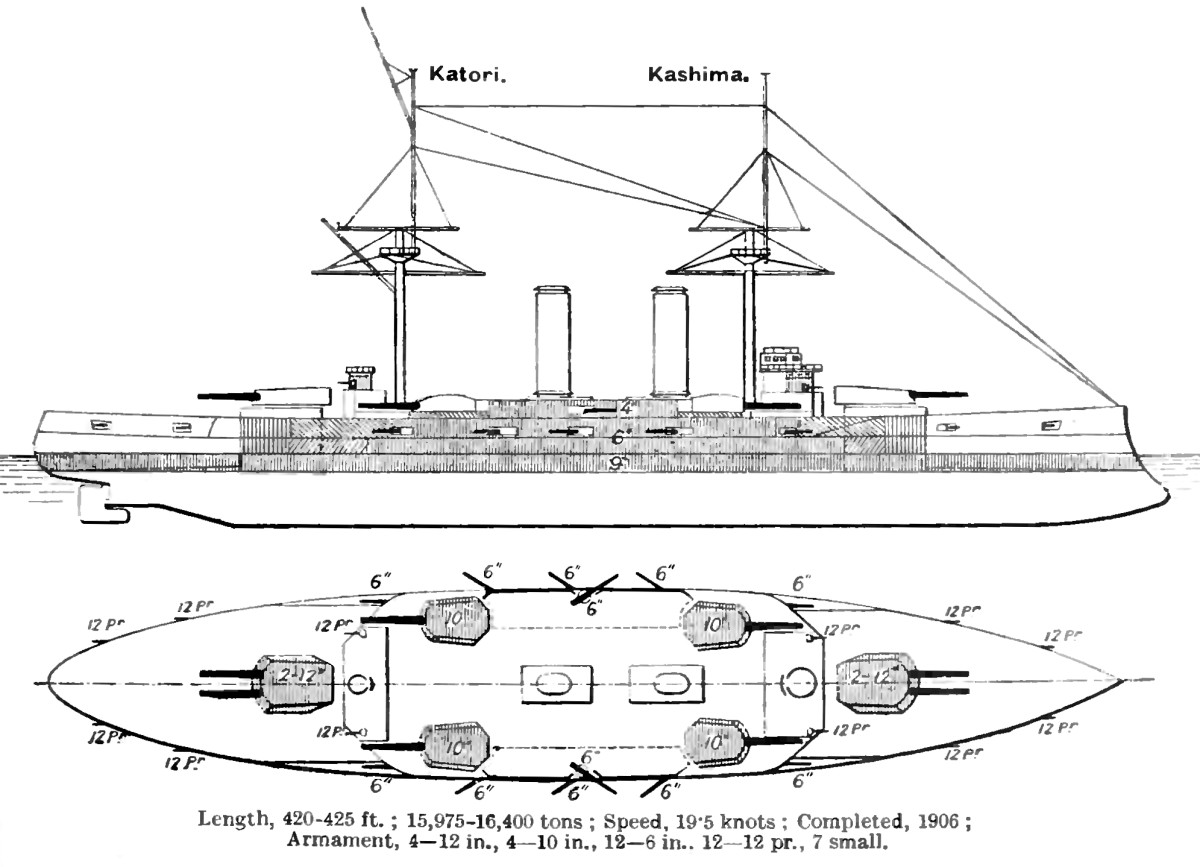 Right elevation and deck plan diagrams depicting Japanese Katori class battleship. Numbers on top diagram show armour thickness (shaded areas) in inches. Numbers on bottom diagram show size of guns in inches.